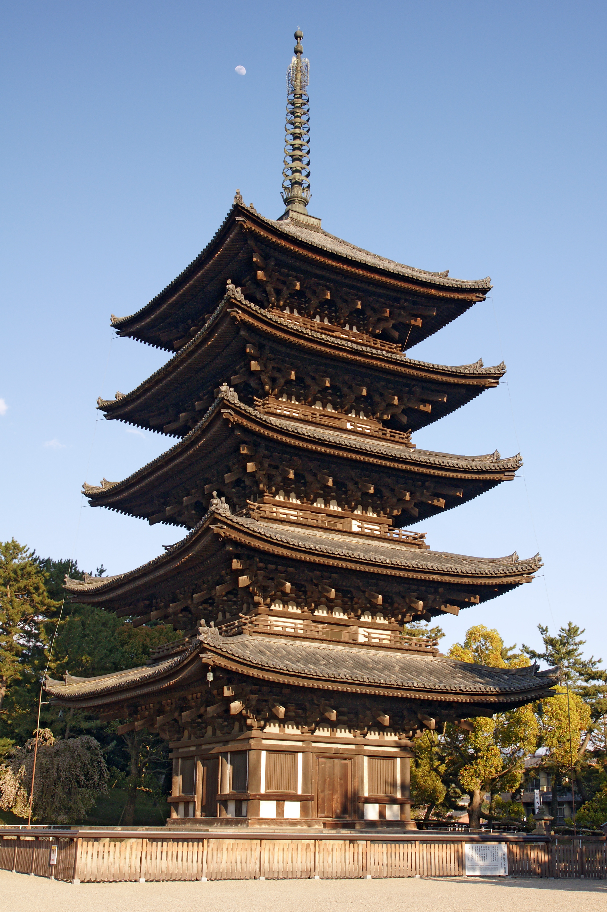 Five-storied pagoda of Kofukuji (Japan's national treasure), Nara, Nara prefecture, Japan